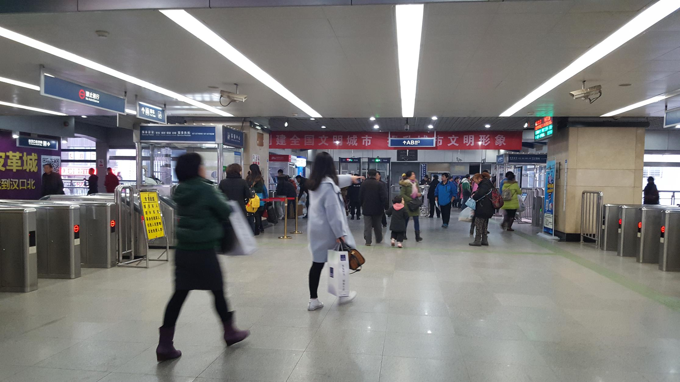 Concourse of Liji Nouth Road Station, Wuhan Metro